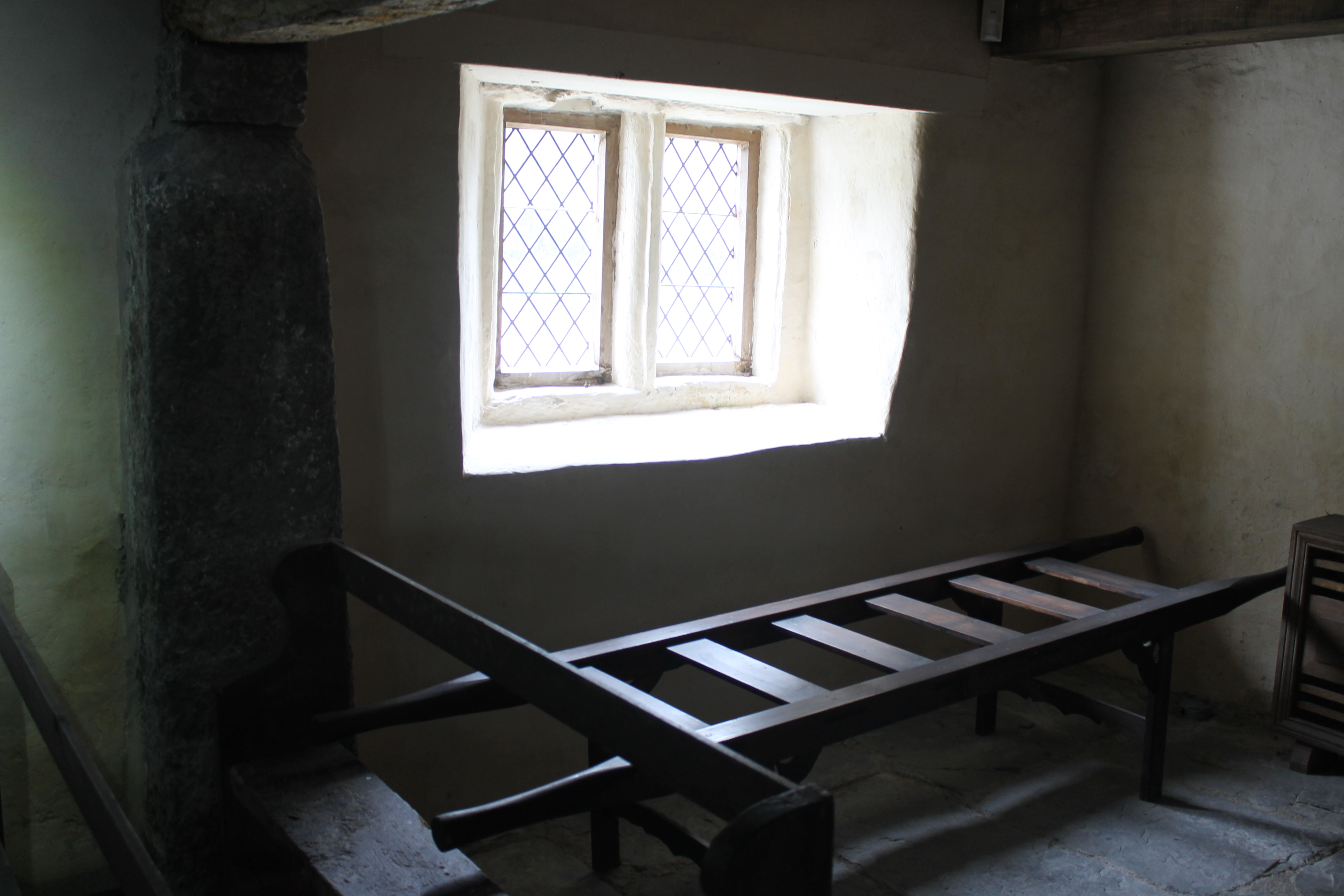 Capel y Carw Gwyn; Llangar, Cynwyd near Corwen, Sir Ddinbych, Wales